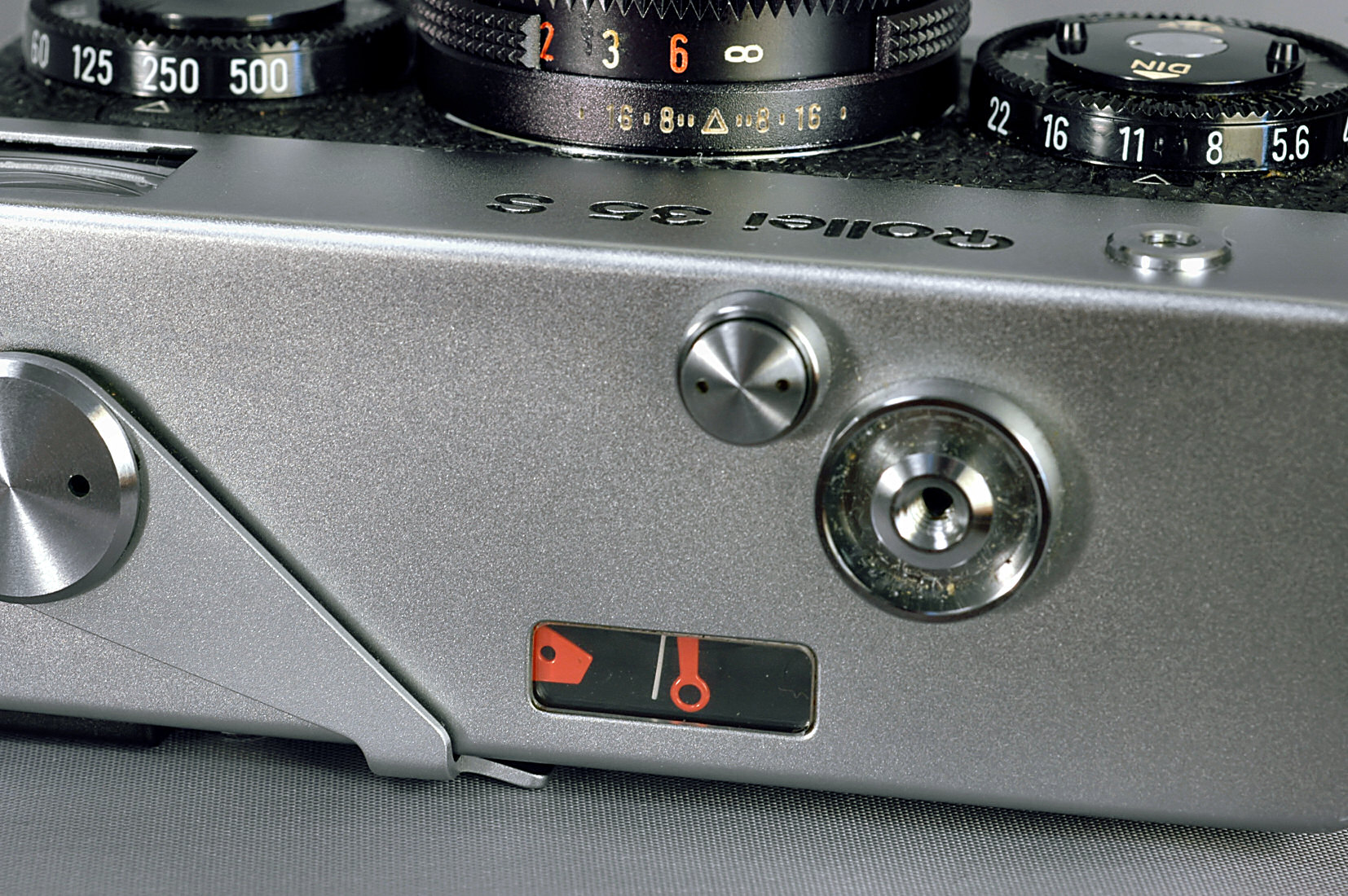 Rollei 35s camera, lighting meter display (view on camera top)